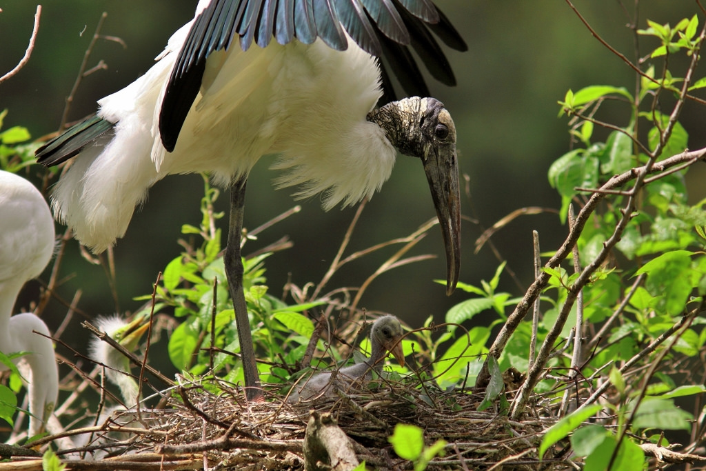 A wood stork shading a chick